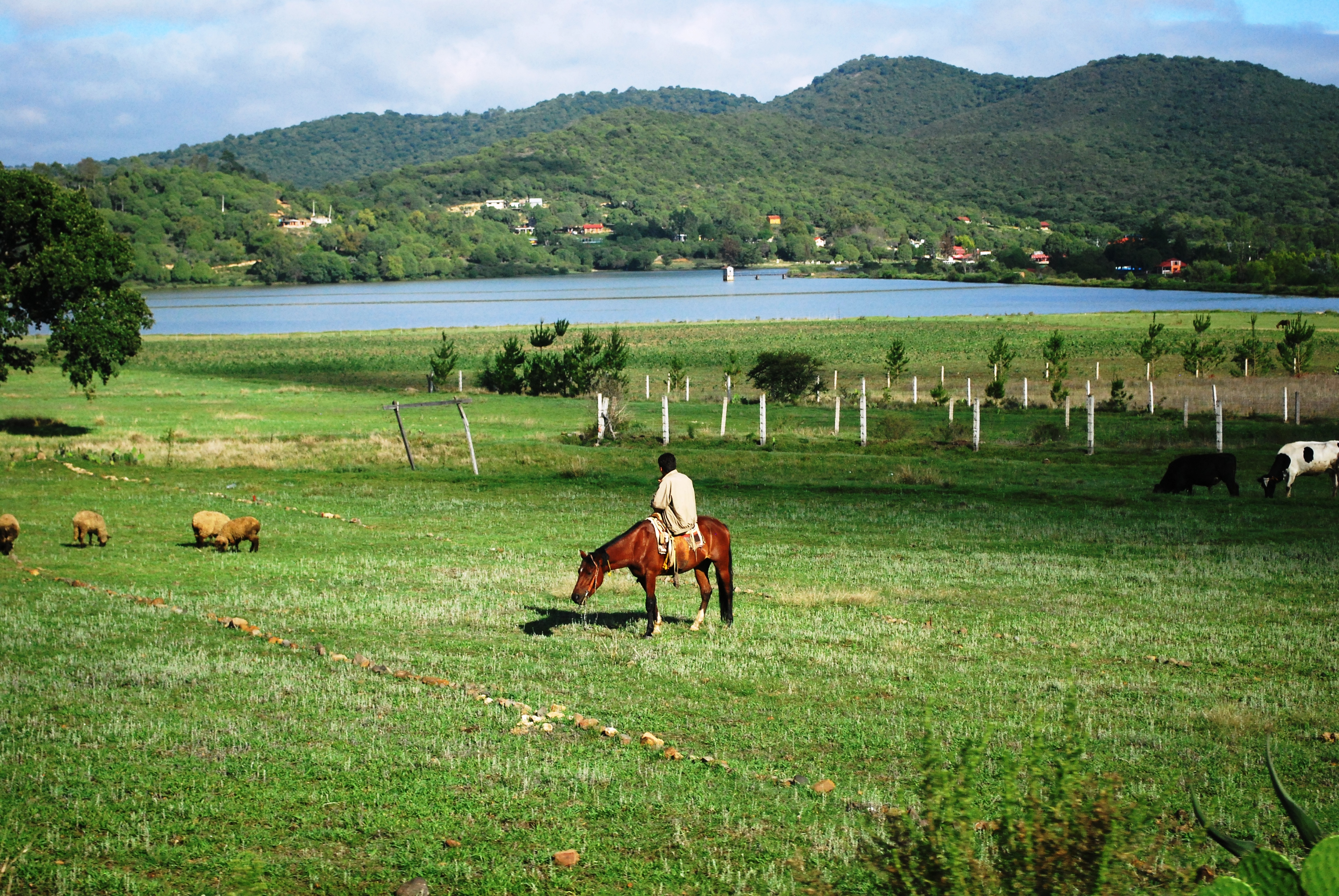 Man on horseback by the San Antonio Dam in Huasca del Ocampo, Hidalgo, Mexico